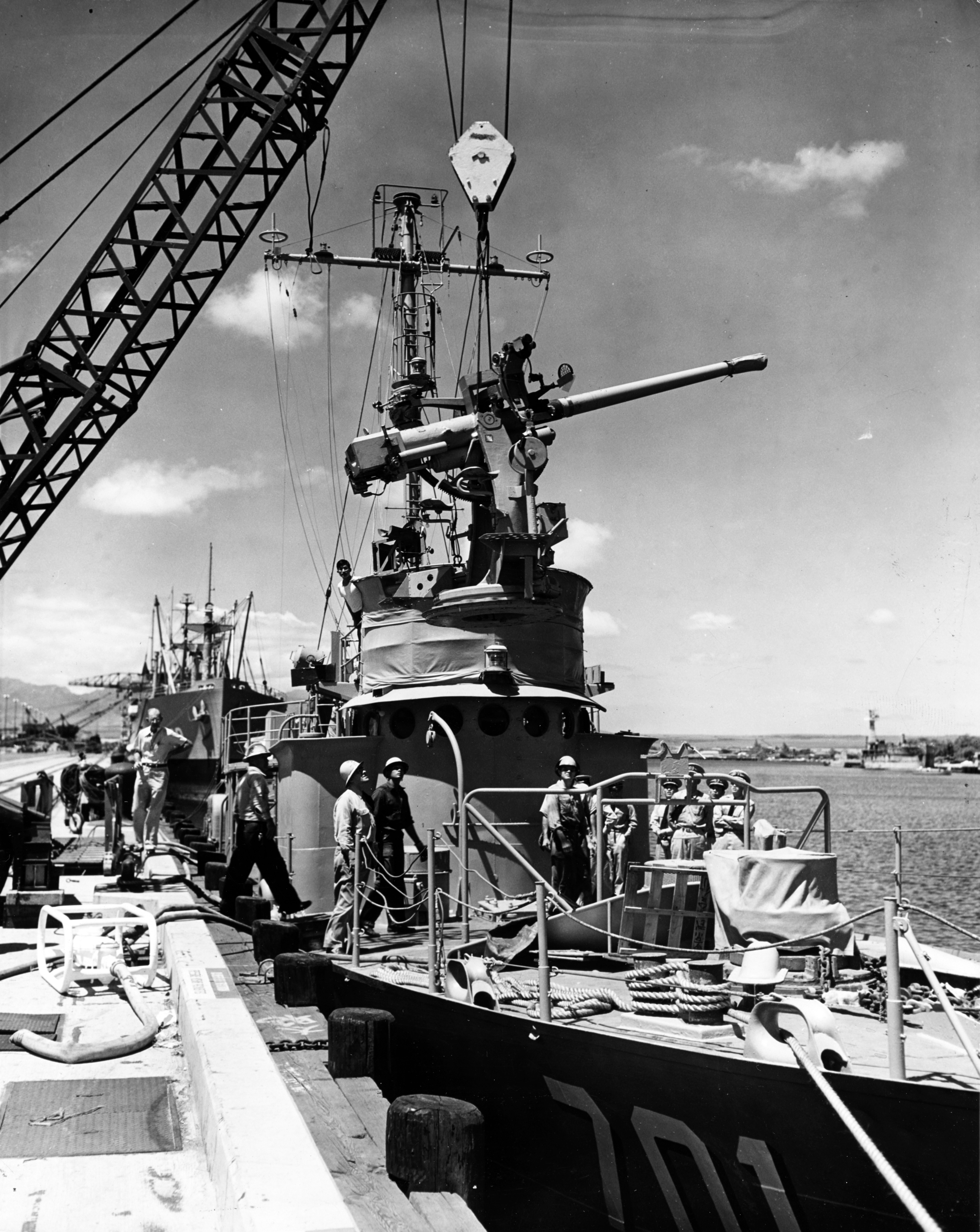 Rearming ROK Pak Tu San (PC-701), March 1950, Ford Island, Pearl Harbor Hawaii. Pa Tu San (also known as Bak Dusan; 백두산 in Hangul; Revised Romanization: Baekdusan) was the first significant warship of the Republic of Korea Navy. A photo from U.S. Naval History Center archive.